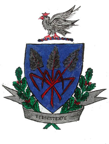 Coat of arms of Teresztenye, Hungary